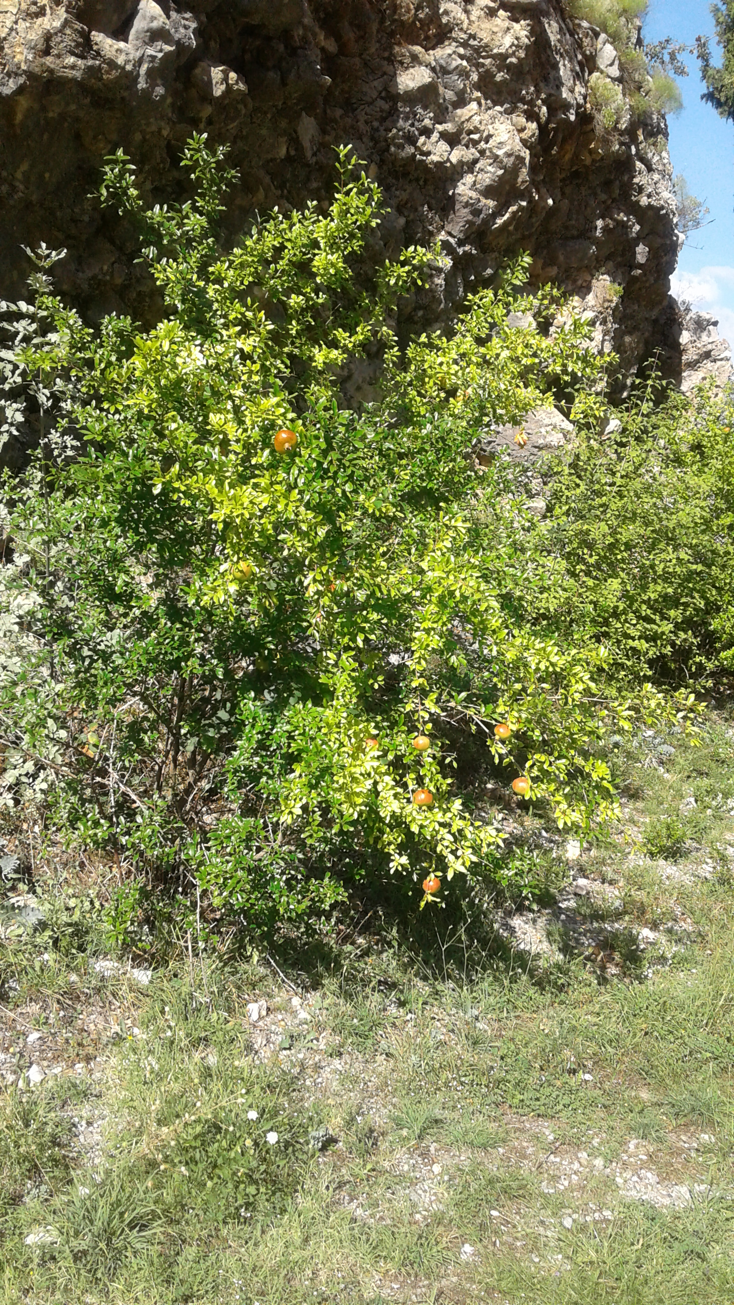 A pomegranate tree near the Dabovici railway station (Montenegro), not far from the Ostrog Monastery.